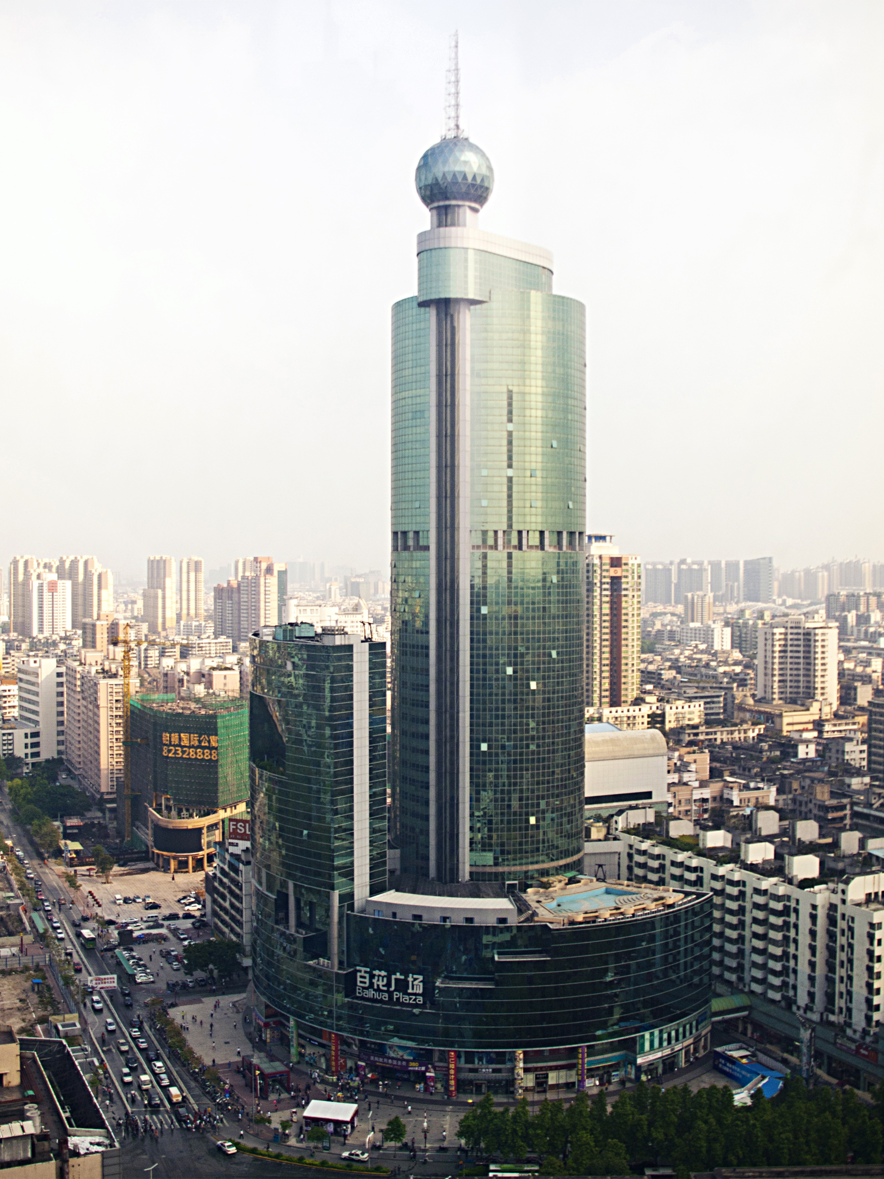 Foshan is a city in central Guangdong province in southern China.